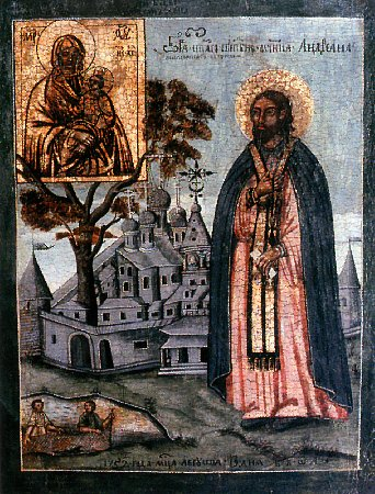 Saint Adrian of Poshekhon (north of Yaroslavl region, Russia). Died in 1550. Founded Dormition monastery on the river Votkha in Poshekhonia, north Yaroslavl region. Адриан Пошехонский